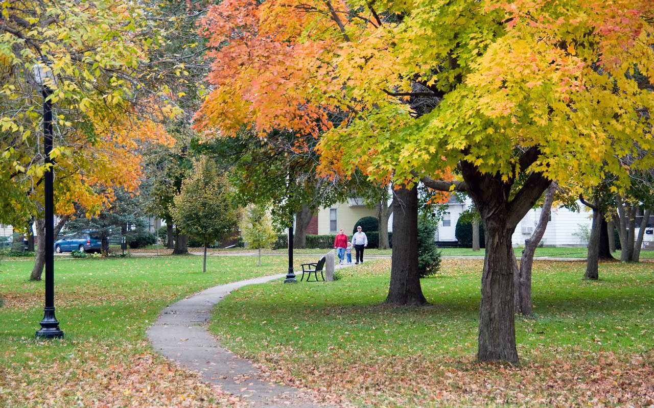 Manchester Iowa Tirrill Park